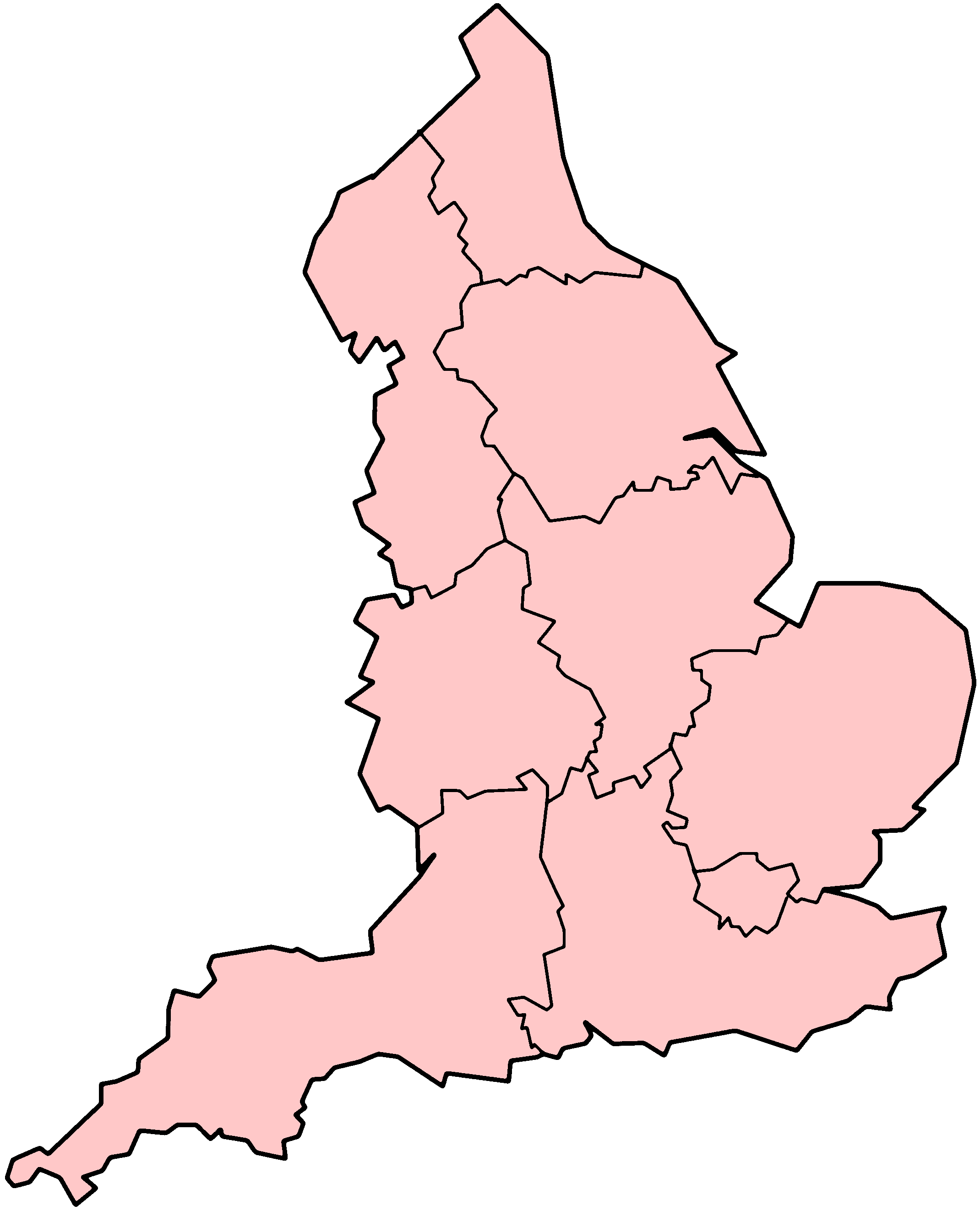 Blank map of English regions.